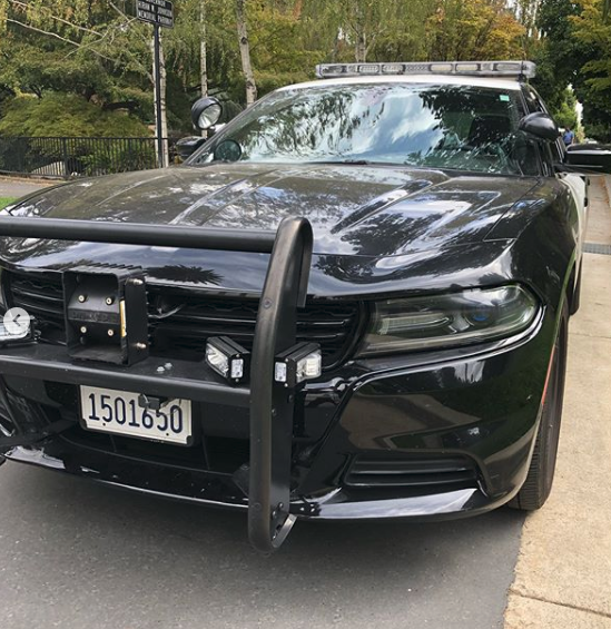 CHP In Sacramento at the National Firefighters Memorial in 2019.